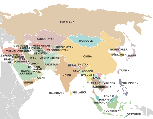 Political map of Asia, captions in german language. creator: Tsui 20:28, 18 January 2006 (UTC) date: 18.01.2006